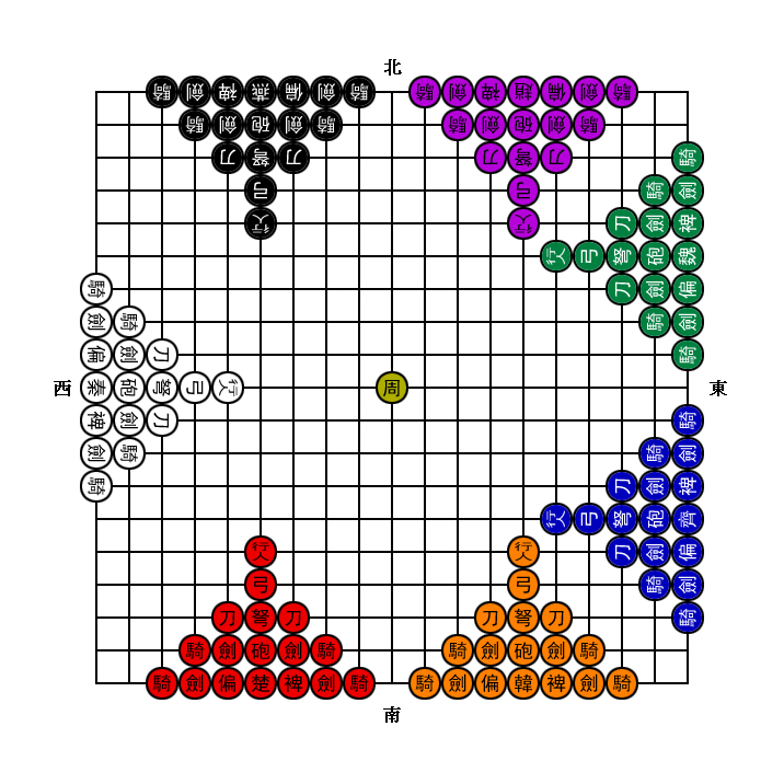 The initial setup of Game of the Seven Kingdoms a.k.a. seven-country chess